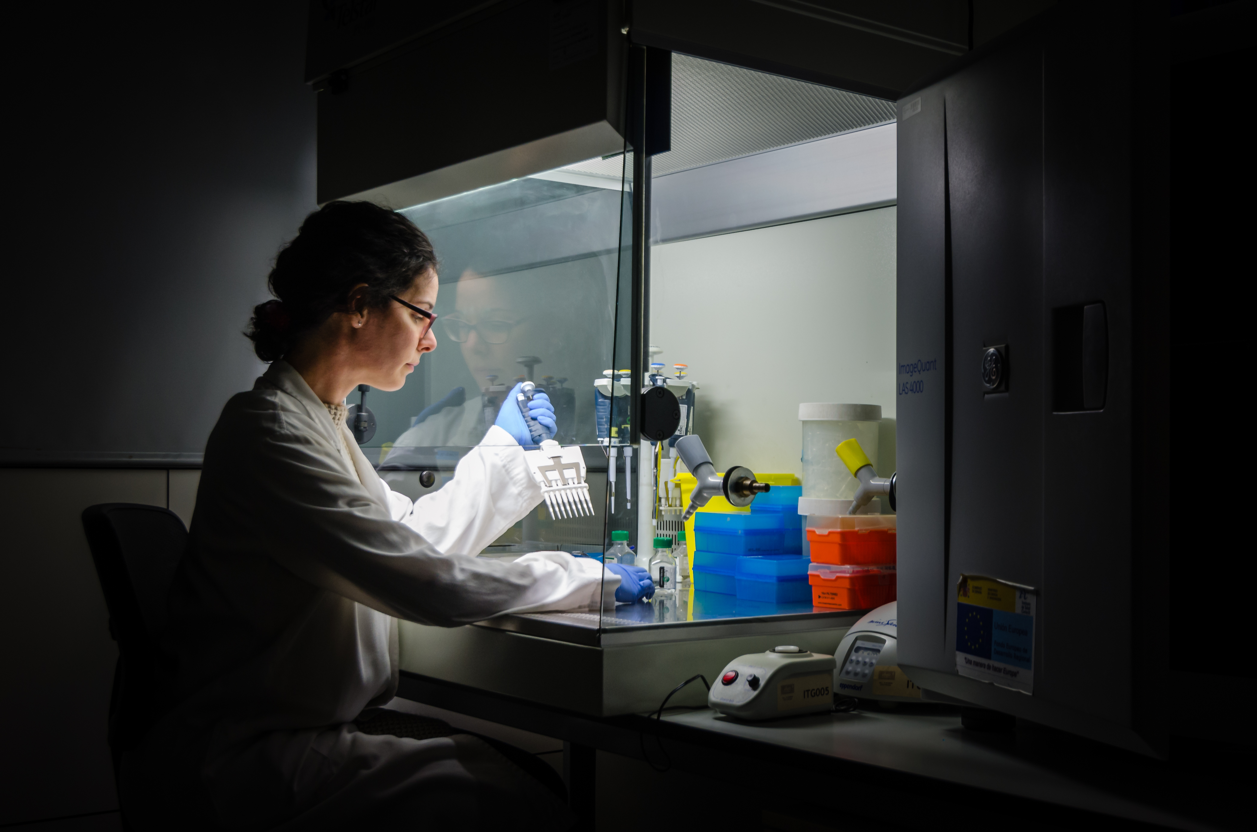 Researcher at work in her laboratory. Working every day until late is almost a common routine for a researcher that really believe in science progress. In this picture, PhD Mileidys Perez working at Vall d'Hebron Institute of Research (VHIR), Barcelona, Spain.